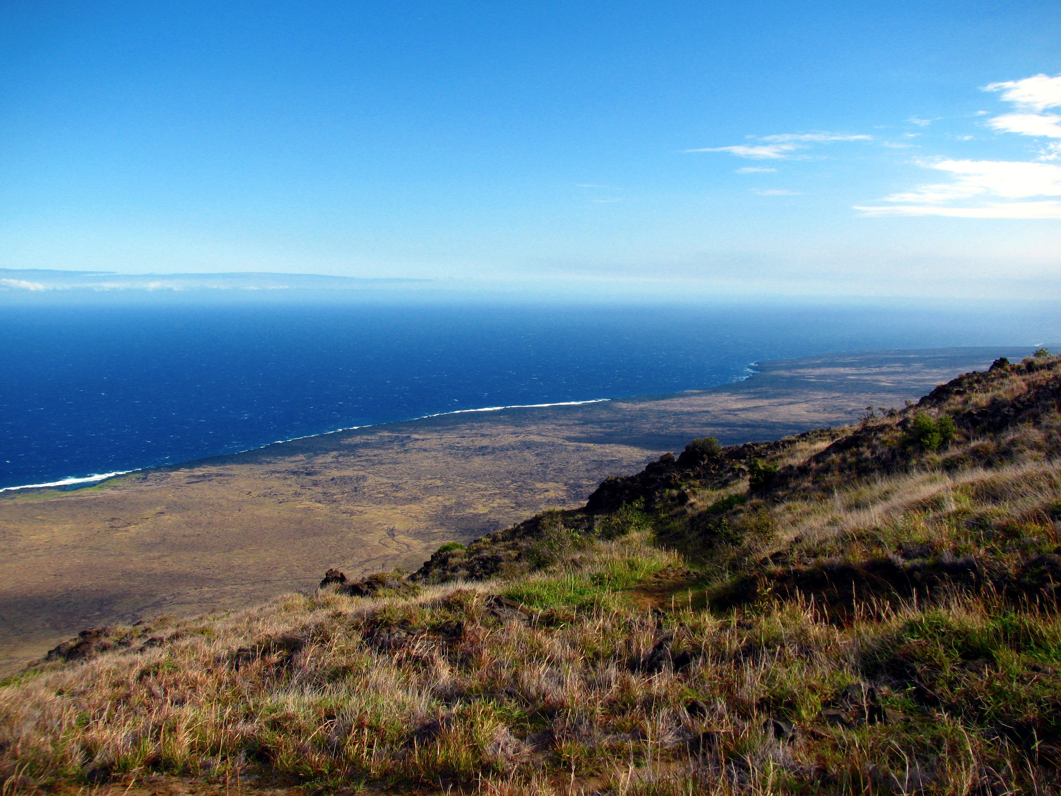 Hilina Pali Overlook, Kilauea, Hawaii, United States